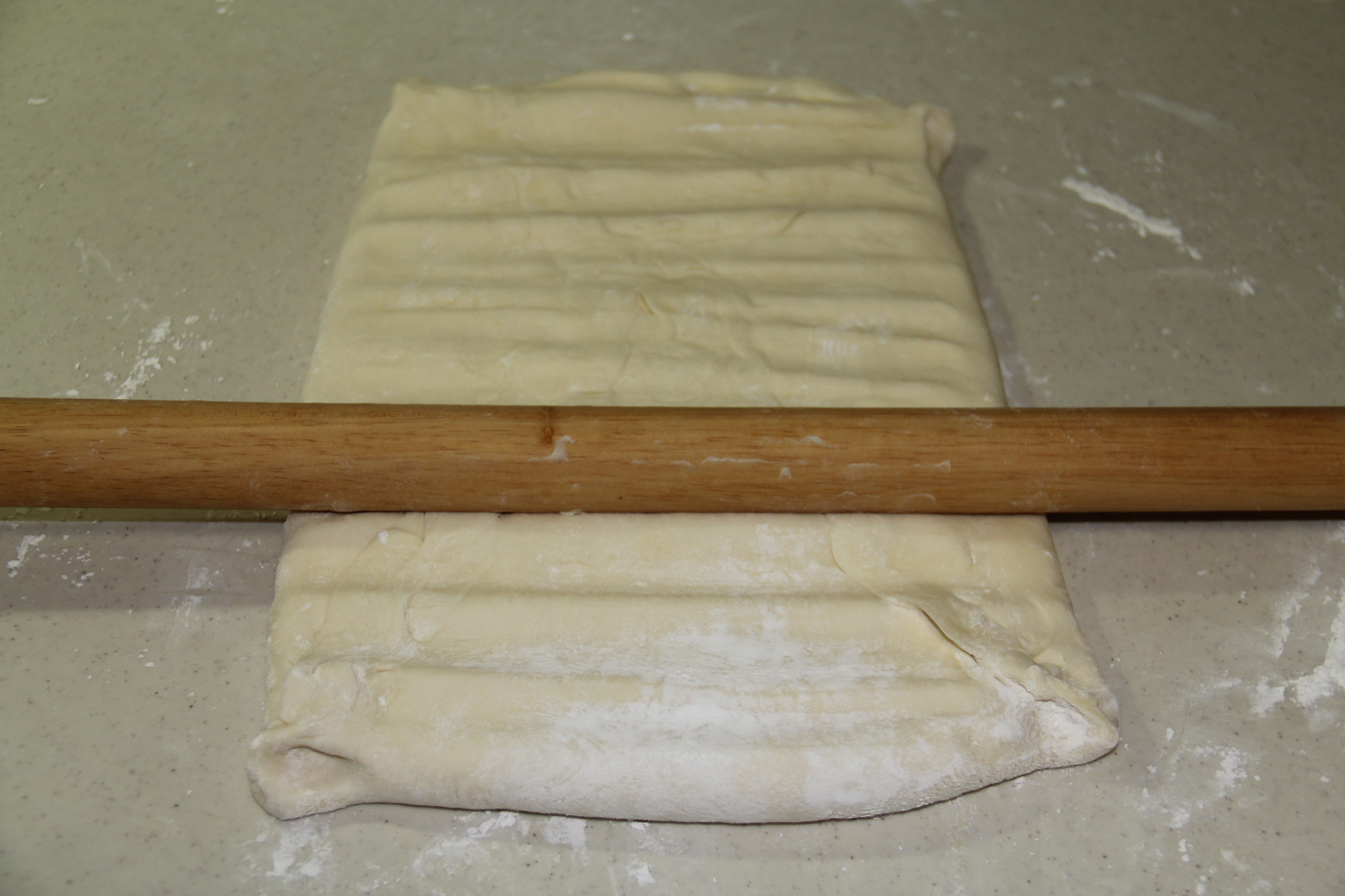 Making puff pastry